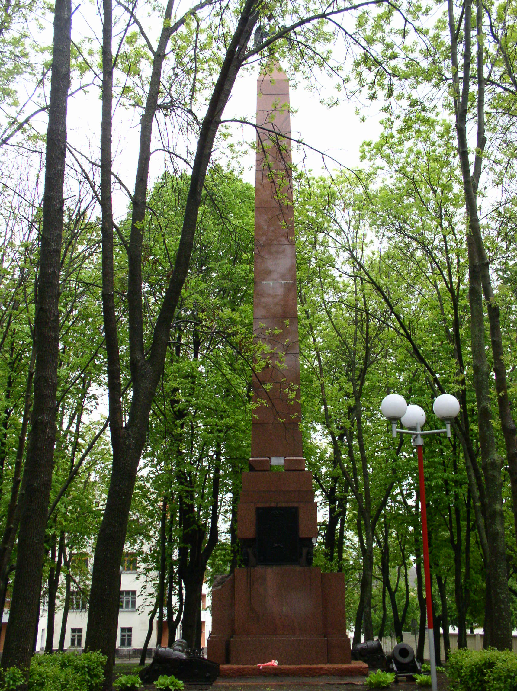 Monument to heroes of Patriotic War of 1812. Vitsebsk, Belarus.